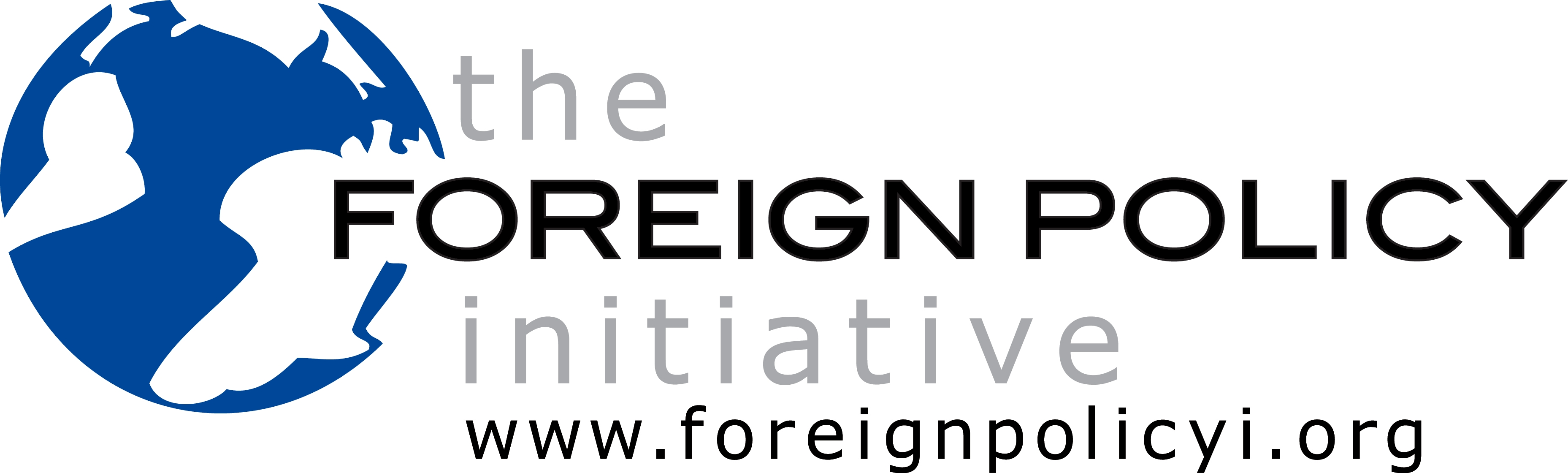 Logo of the Foreign Policy Initiative